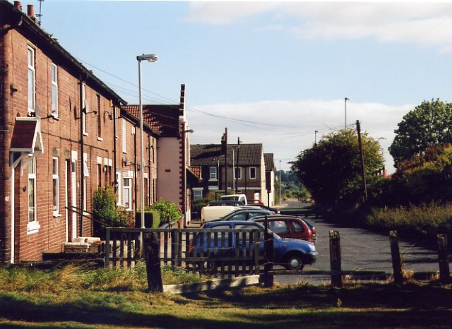 South Street, Fryston The building protruding from the far end of the terrace is the former Co-Op store, now a house.